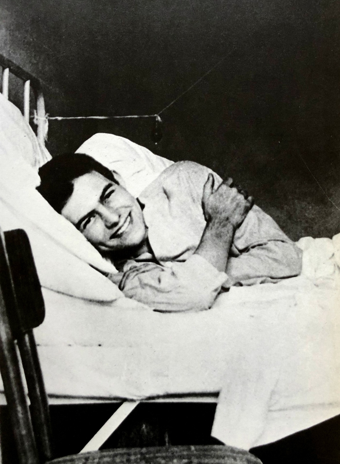 Ernest Hemingway, July 1918, American Red Cross Hospital, Milan, Italy